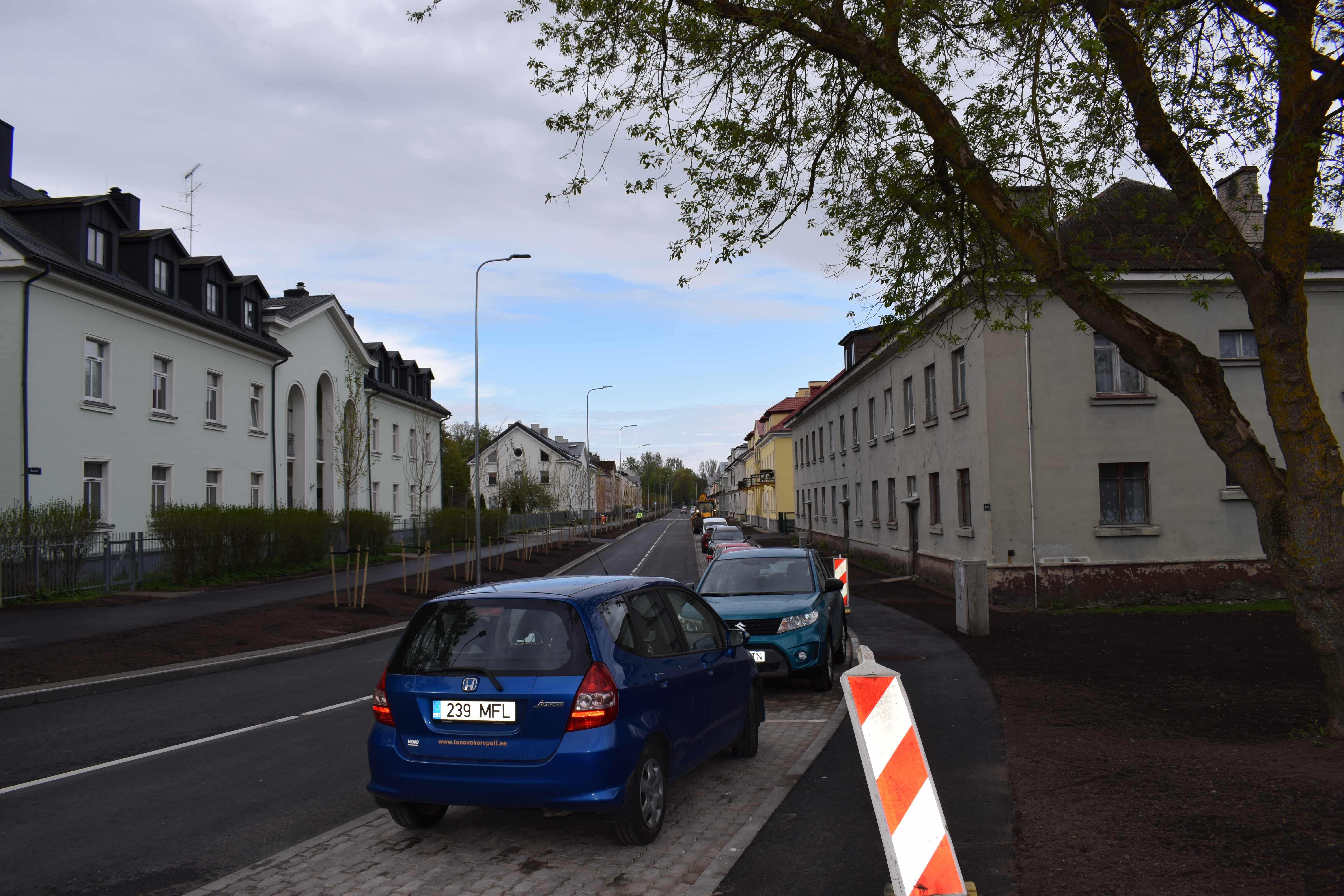 Asula street